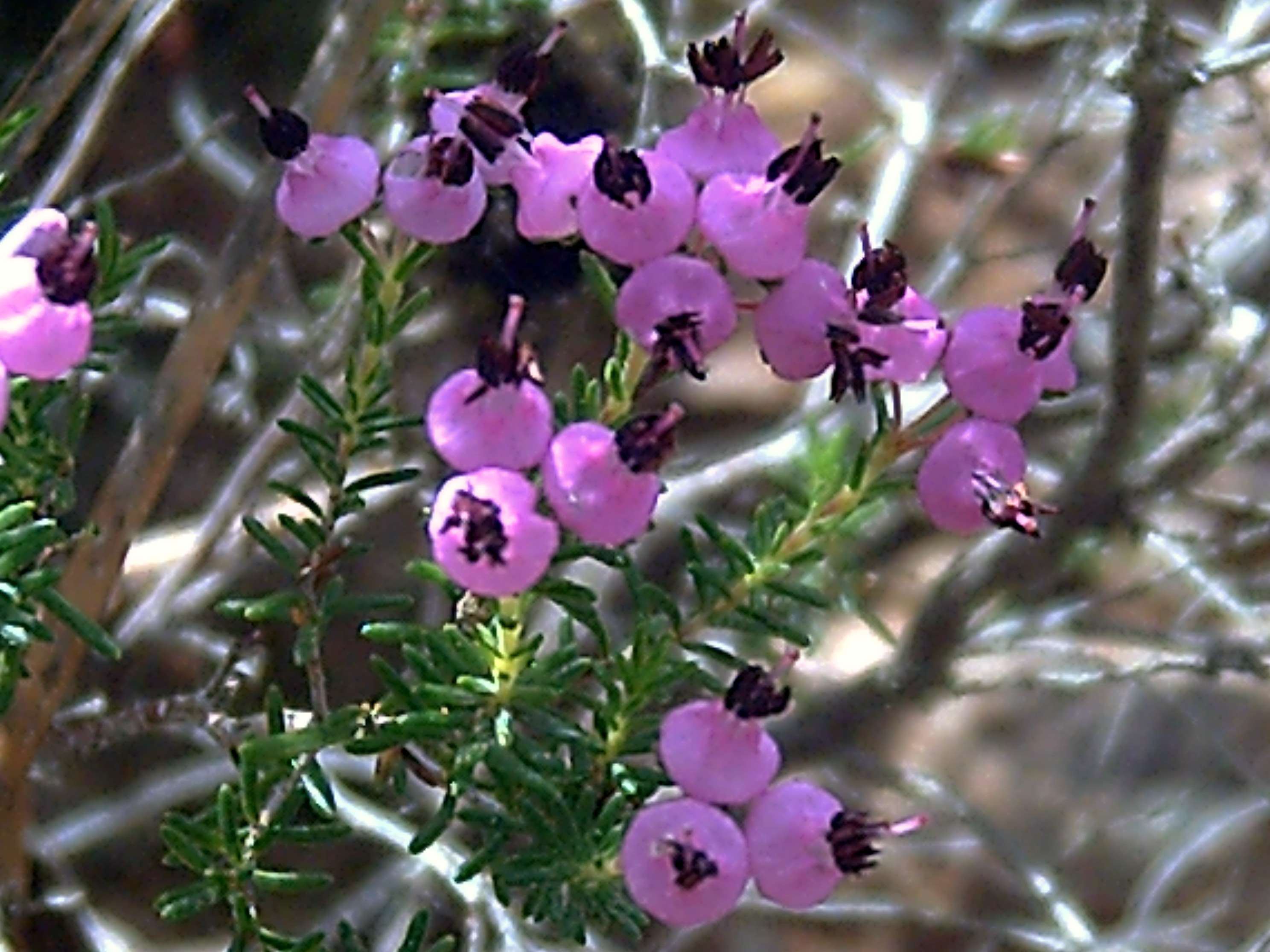 Erica umbellata flowers close up, Dehesa Boyal de Puertollano, Spain